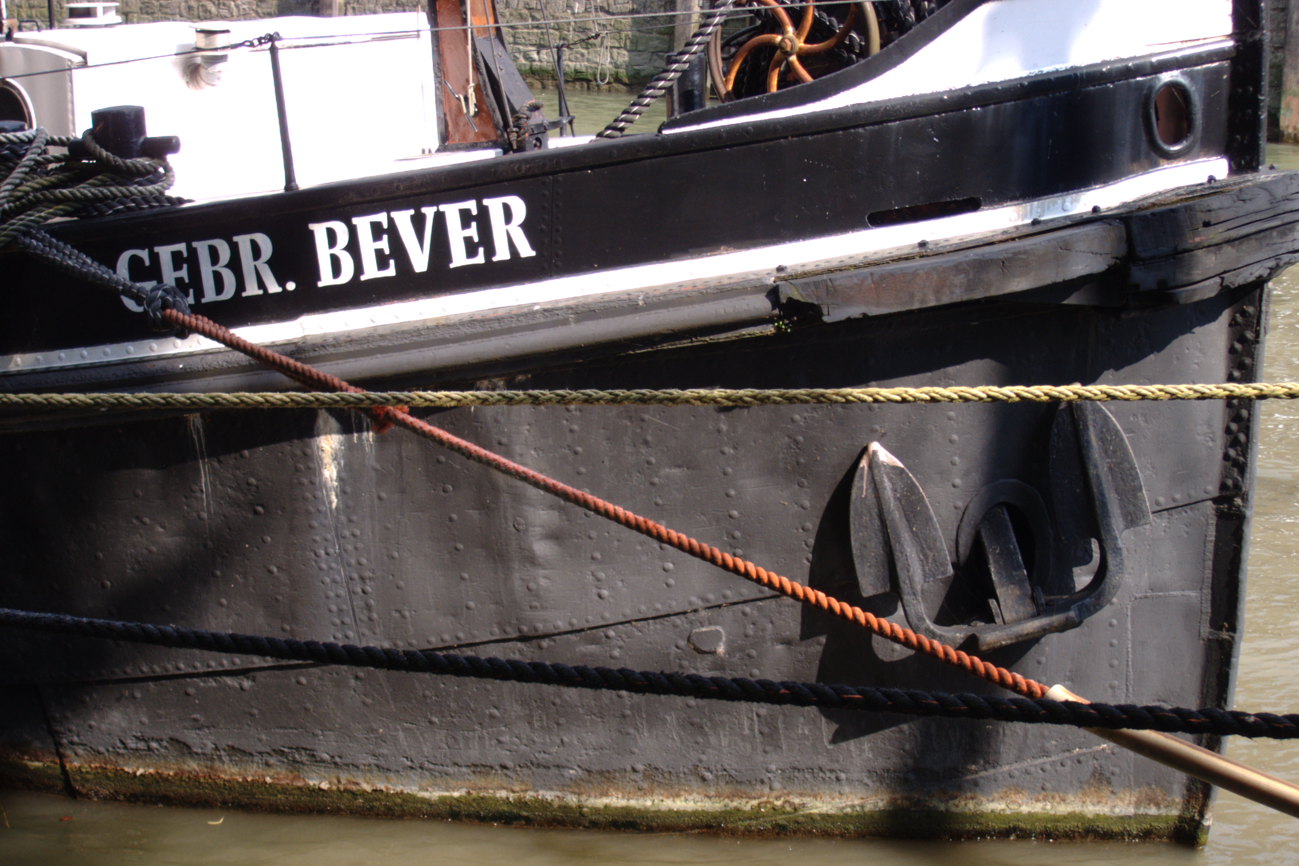 Detail of an old riveted ship hull, with the rivets clearly visible. The ship pictured is the Gebr. Bever (Dutch for Beaver Brothers), a tugboat built in 1941, at its usual spot in the Wolwevershaven in its home port of Dordrecht, the Netherlands.